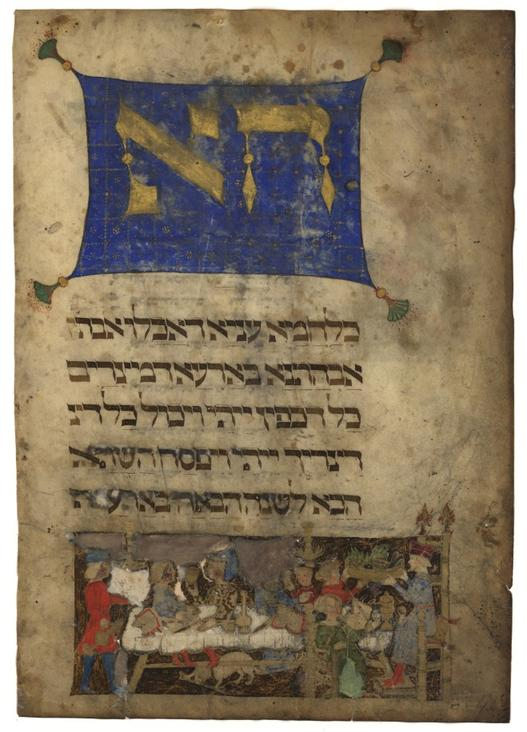 Rotschild Haggadah